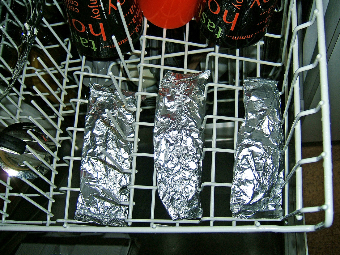 Extreme Cooking inspired by Bob Blumers book "Off The Eaten Path": Fish packed into aluminium foil and poached in the dishwasher (sic!). Worked and tasted excellent!